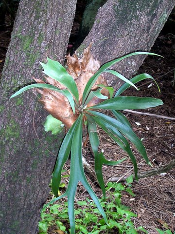 Elkhorn Fern on a Casuarina glauca, Lane Cove River